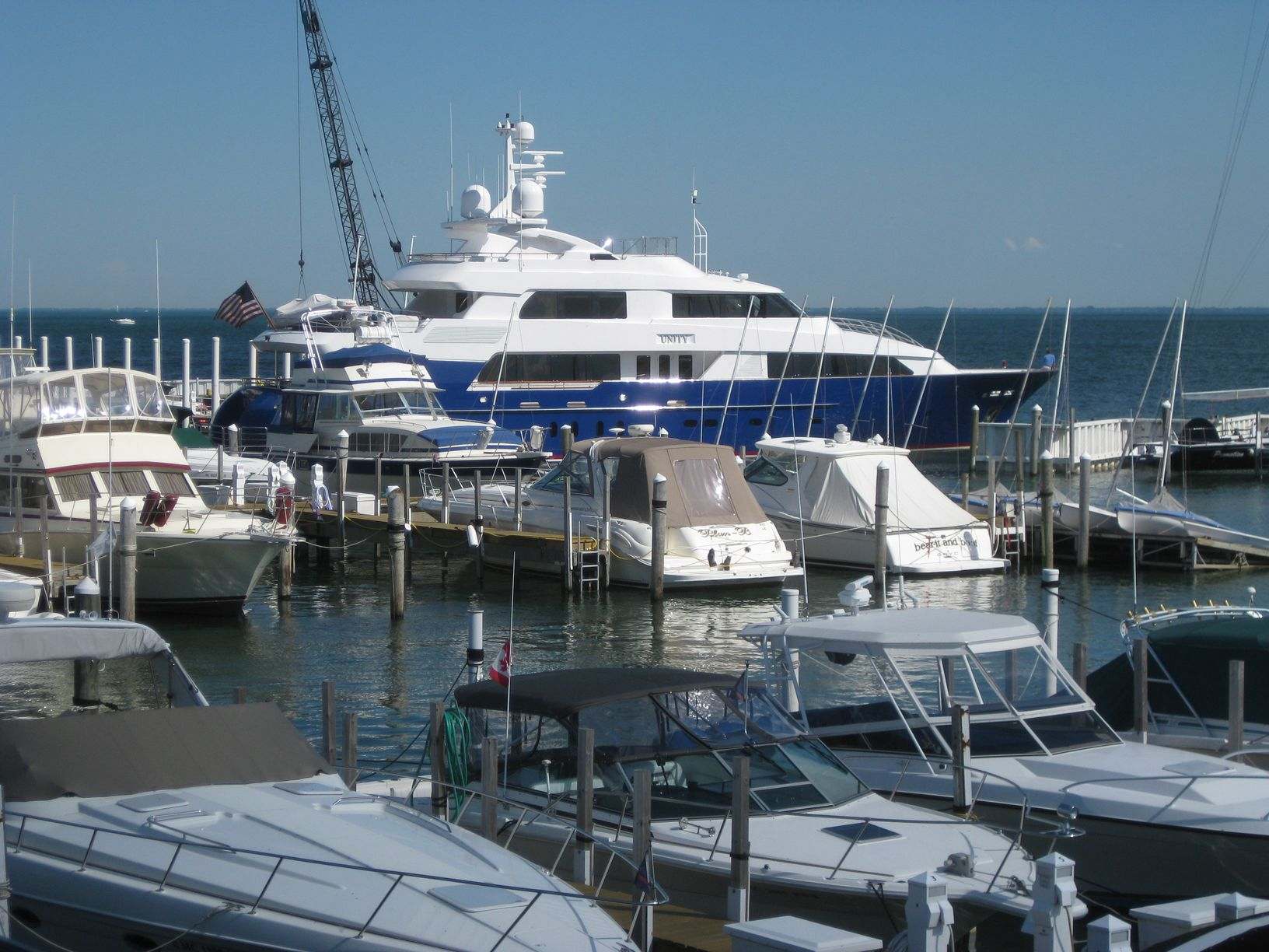 The 131' "Unity", built by Palmer Johnson in 2002, leaving the Grosse Pointe Yacht Club, in Grosse Pointe Shores, Michigan.